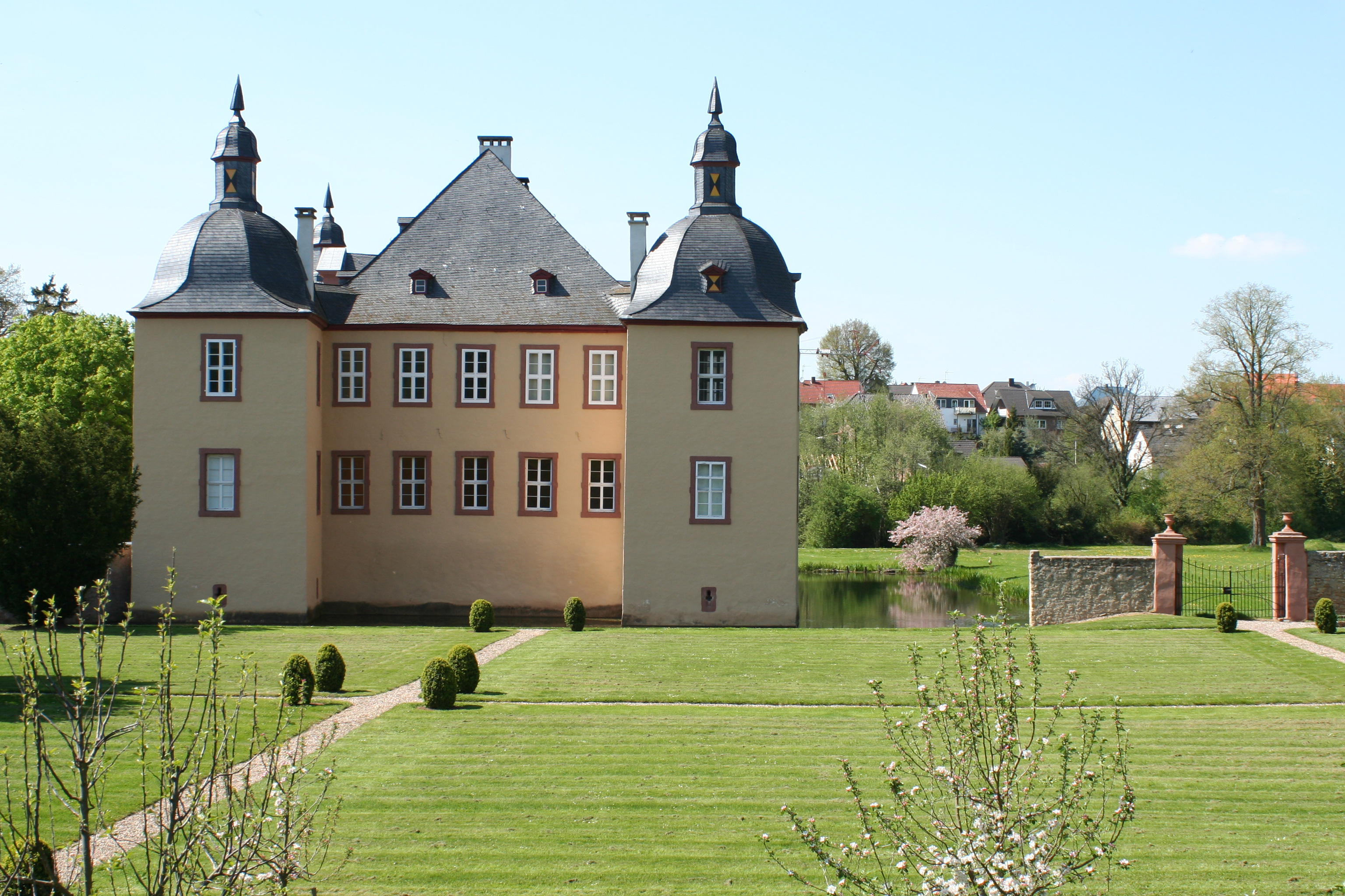 Castle Eicks, surrounded by moats